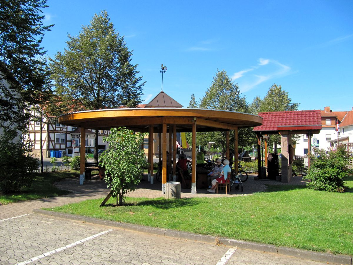 Germany / North Hesse / eder cycle path: Picknick place in the village "Wega"